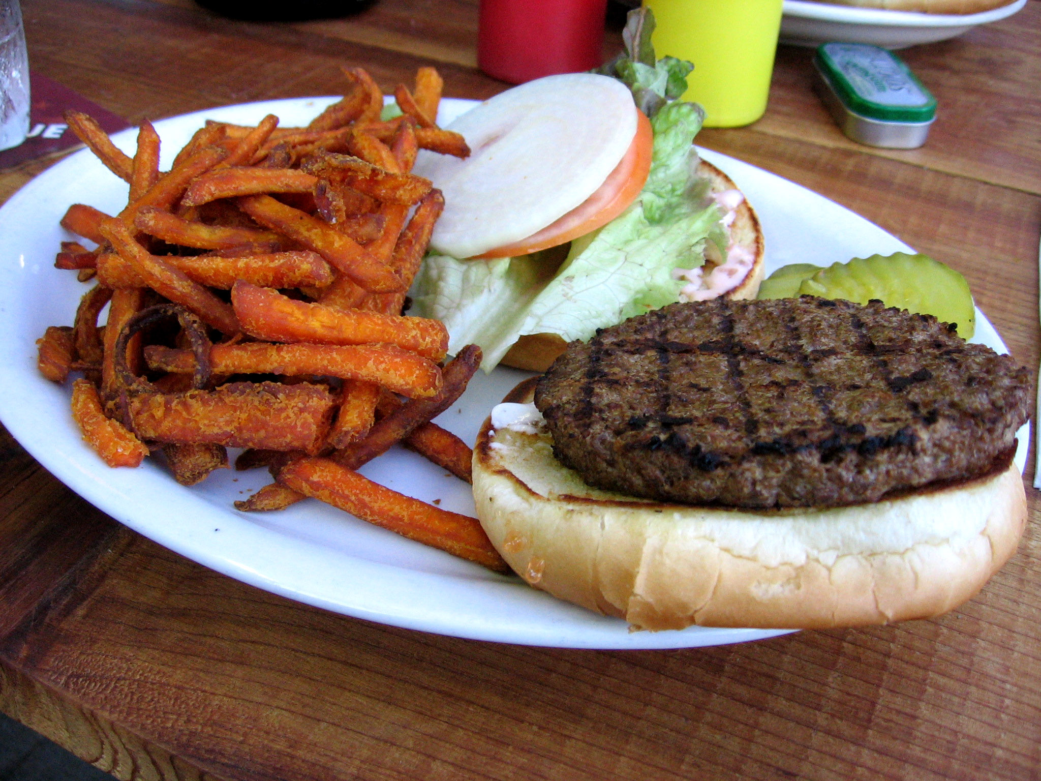 Veggie Burger and Sweet Potato fries at Kays